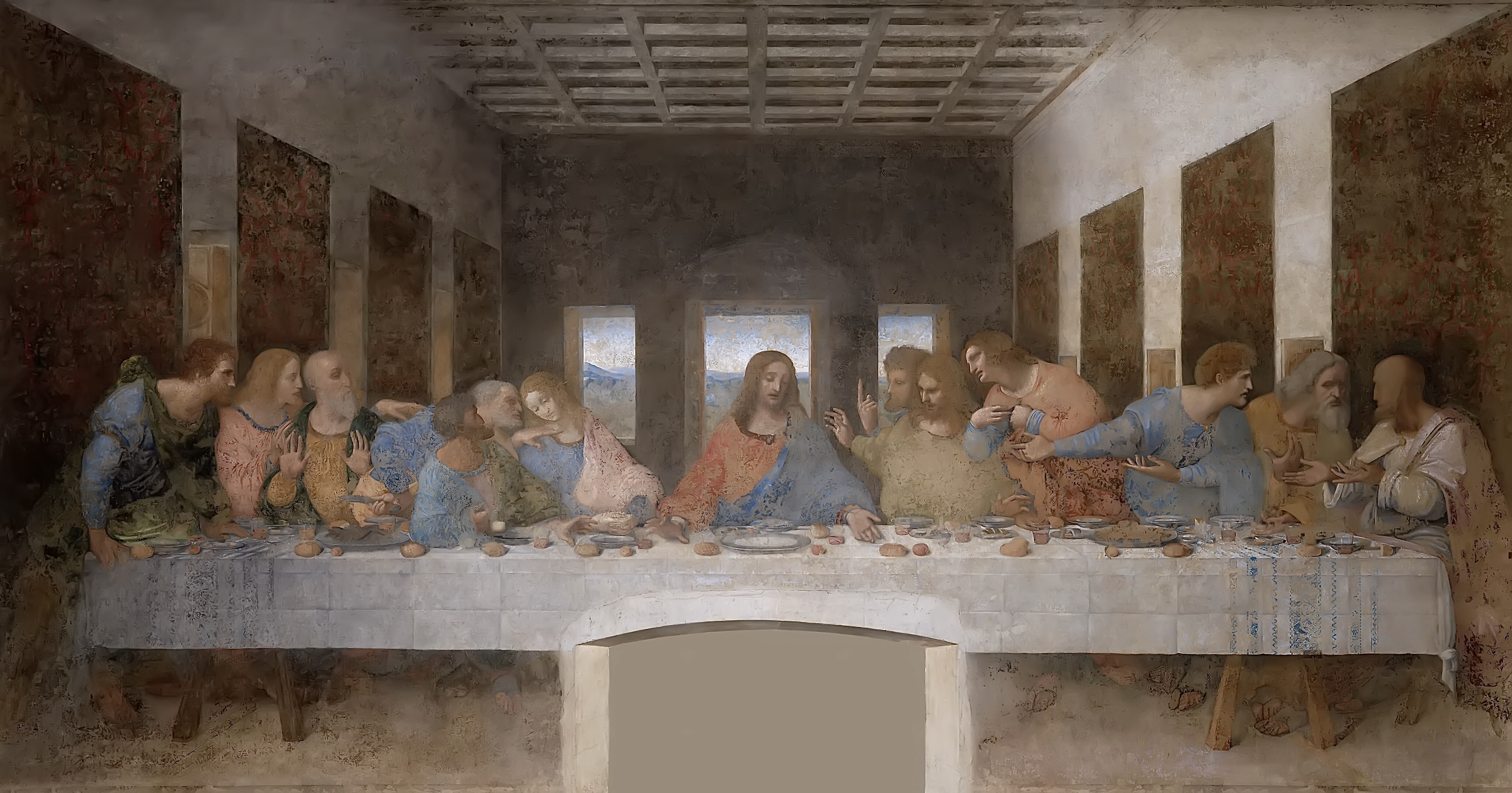 The Last Supper Leonardo Da Vinci - High Resolution